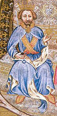 Wenceslaus, King of the Romans